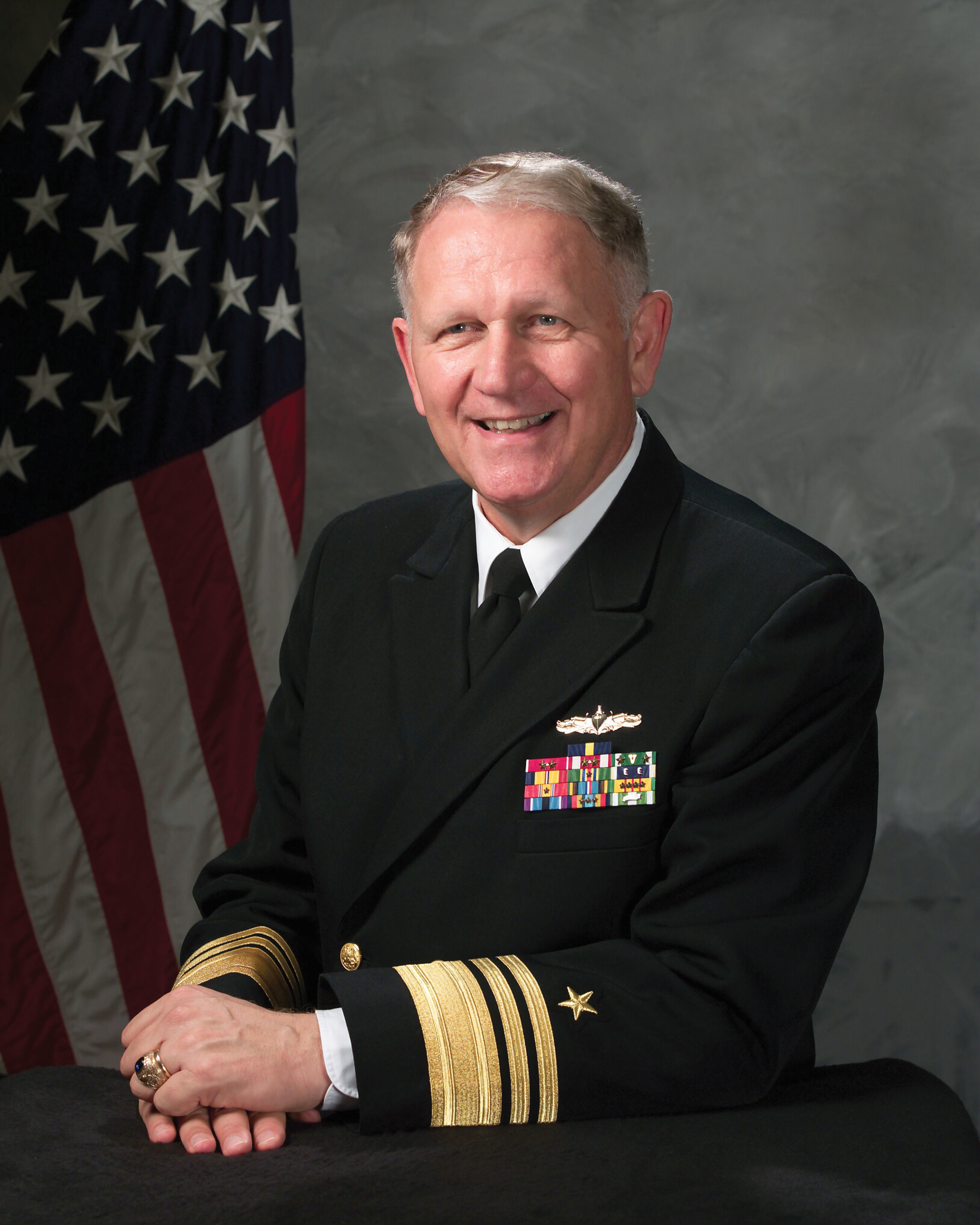 VADM Rodney Rempt from [1]